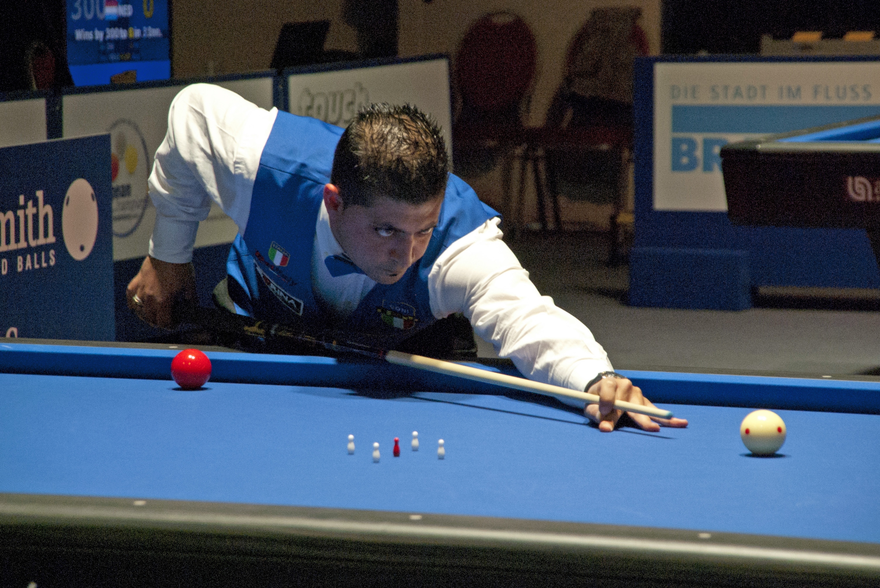 The making of this document was supported by the Community-Budget of Wikimedia Germany. European Carom Billiards Championships 2015